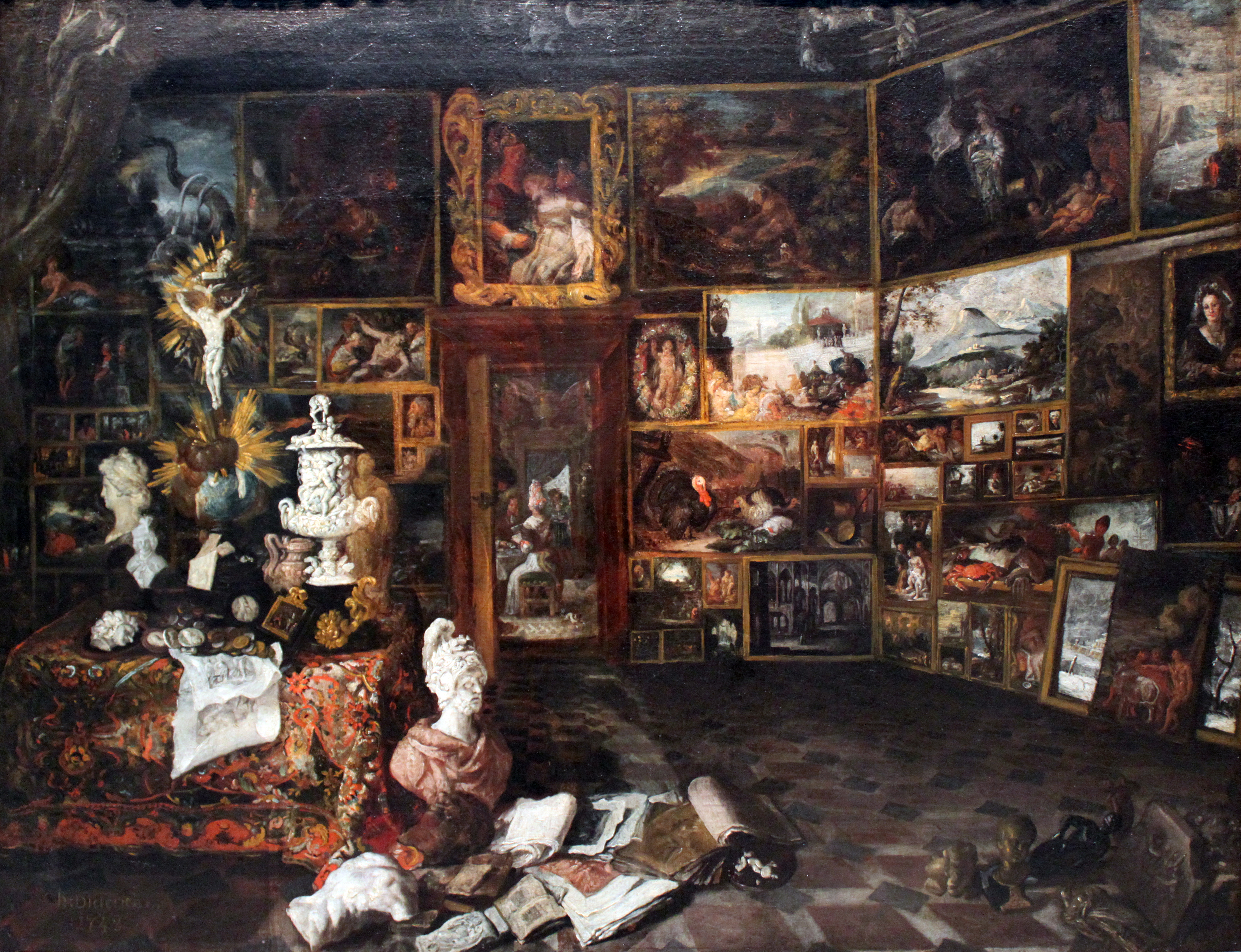 Depiction of a Picture Cabinet